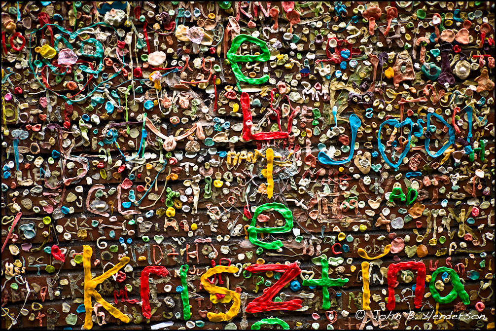 Chewing gums in the Bubble gum alley.